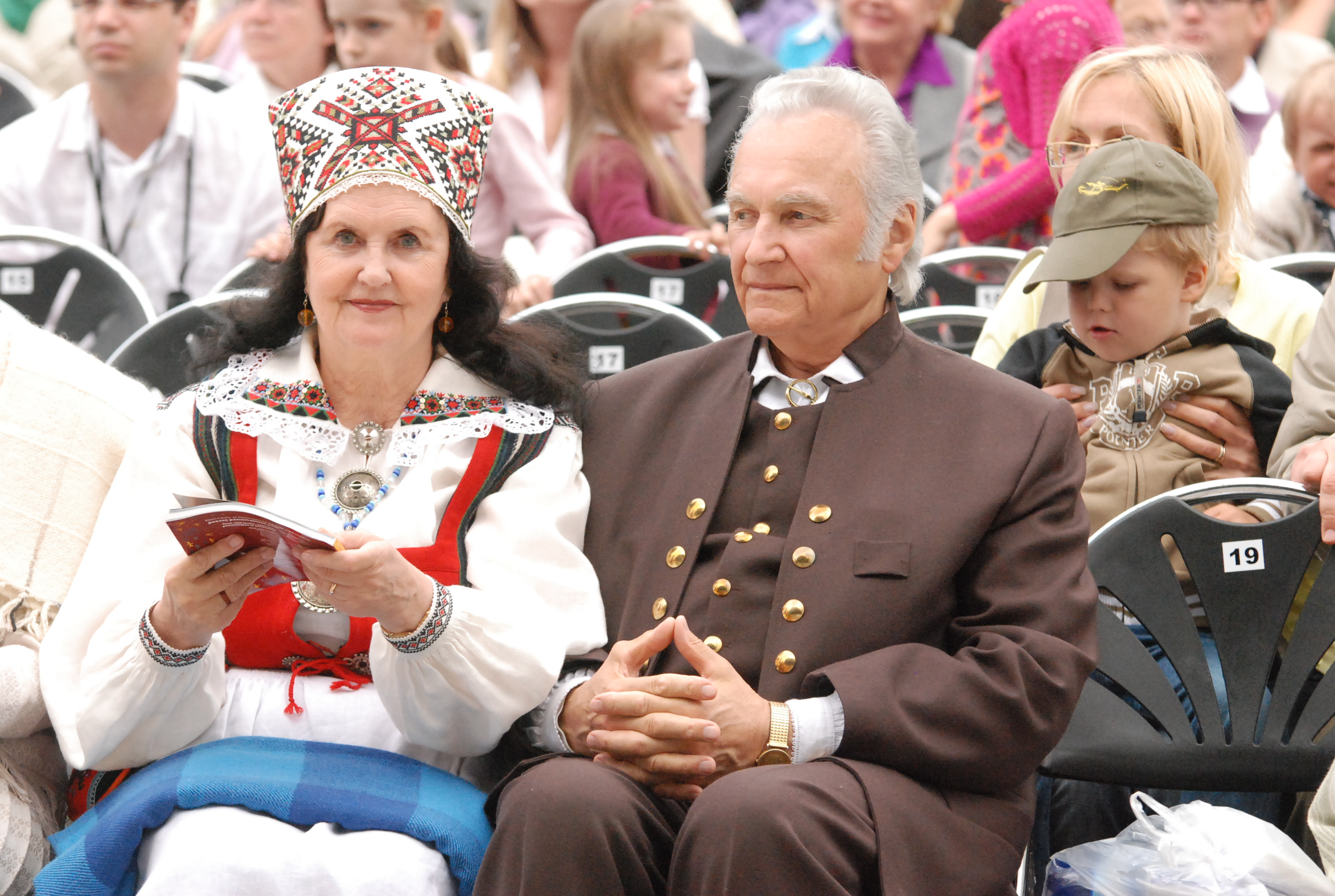 Estonian President Arnold Rüütel with his wife Ingrid Rüütel at XXV Estonian Song Celebration in 2009.